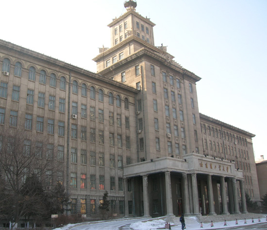 Harbin Institute of Technology - Main Building